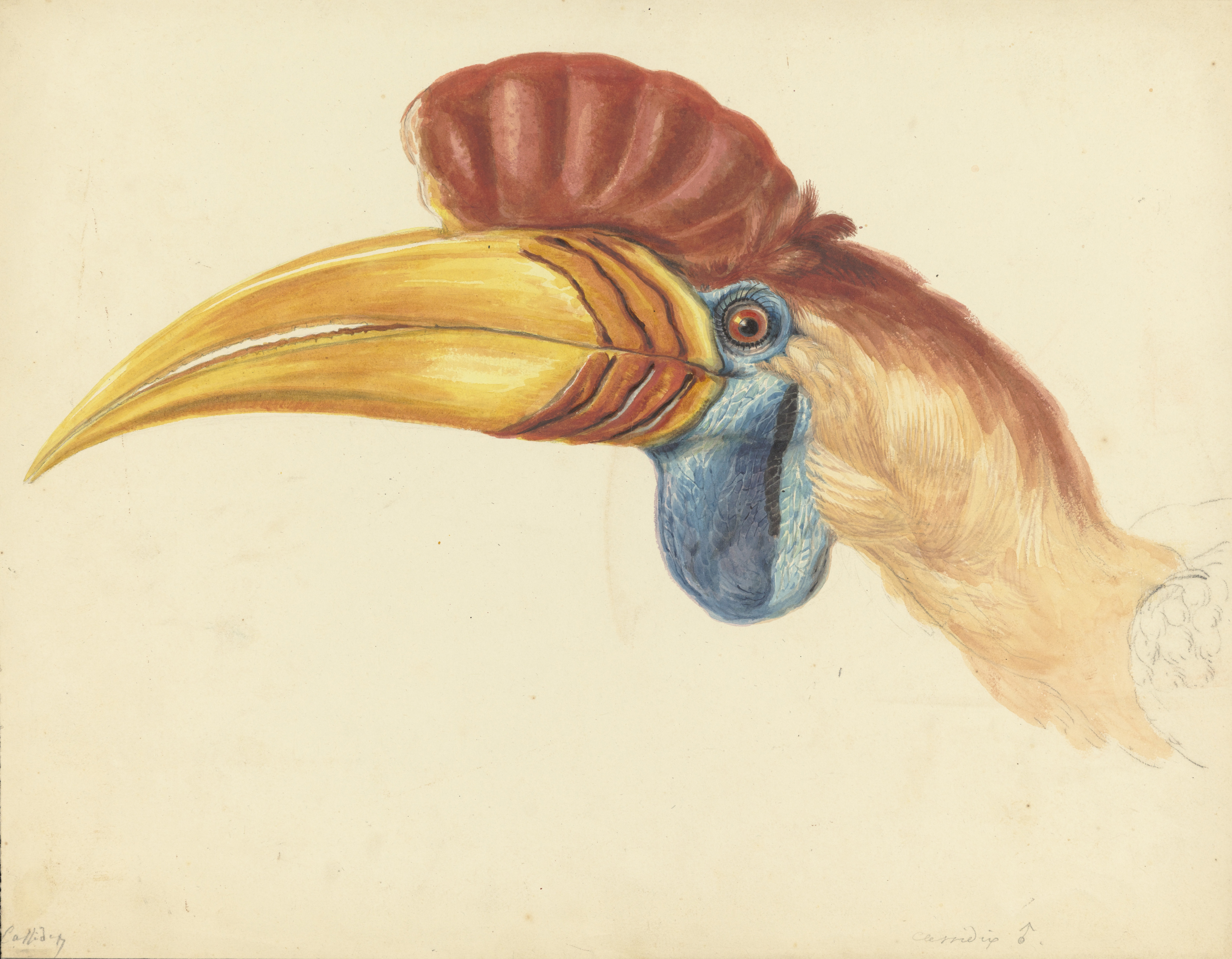 Drawings of a bird head